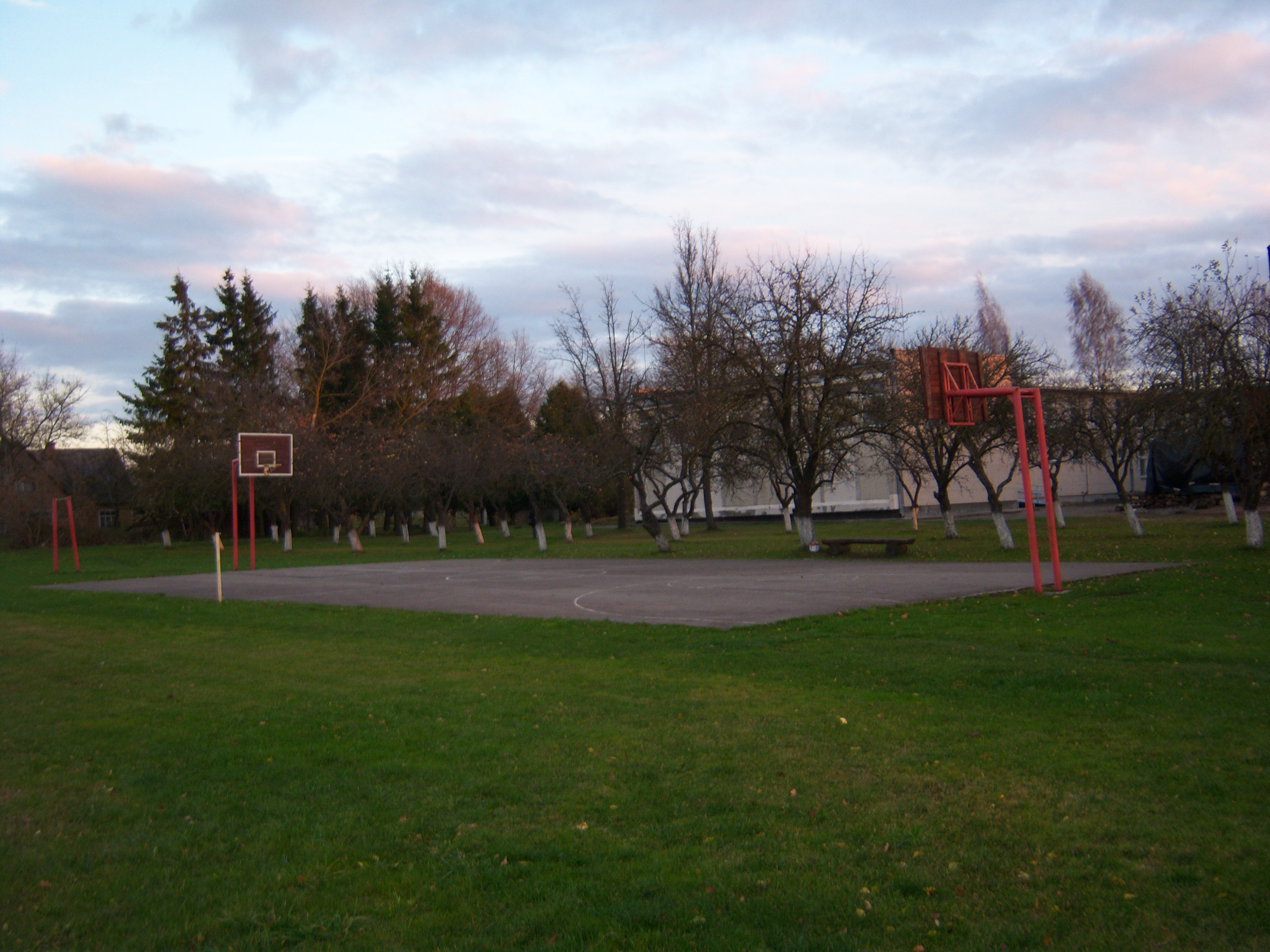 Geležiai school, Panevėžys District, Lithuania